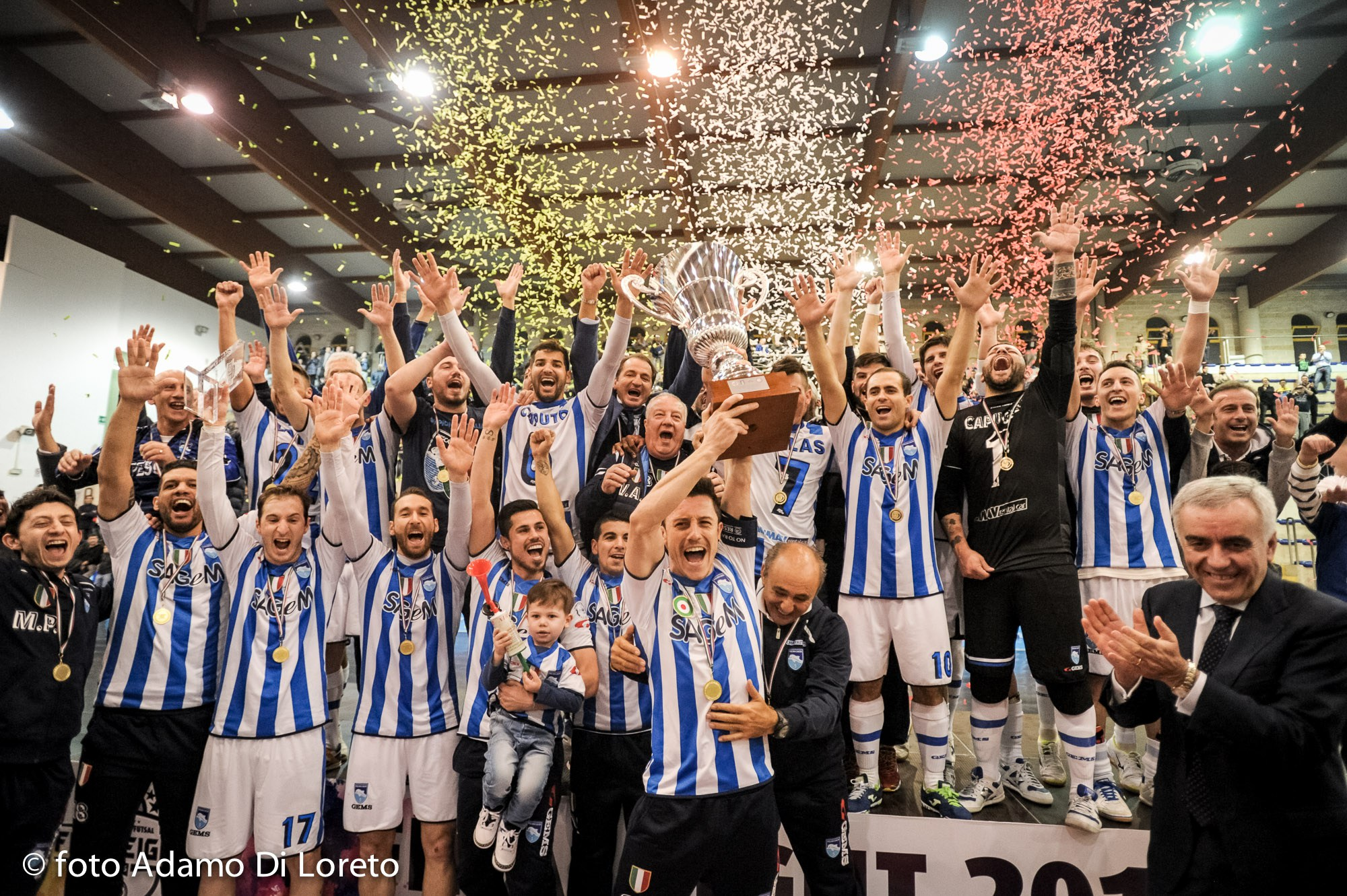 Pescara C5 wins the Coppa Italia 2015-16